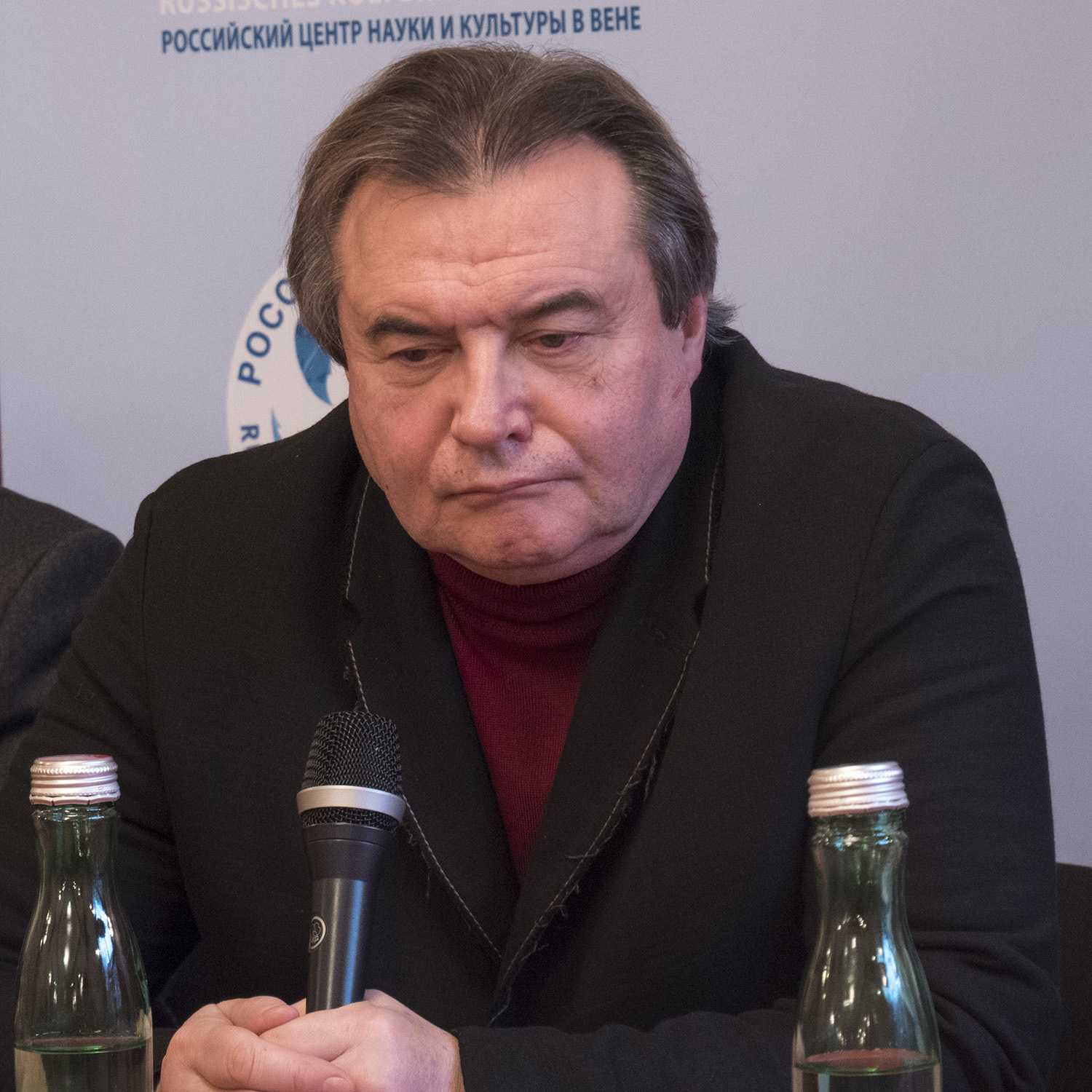 Film director Alexei Uchitel at the premiere of his film Matilda in Vienna, Austria, 30.11.2017